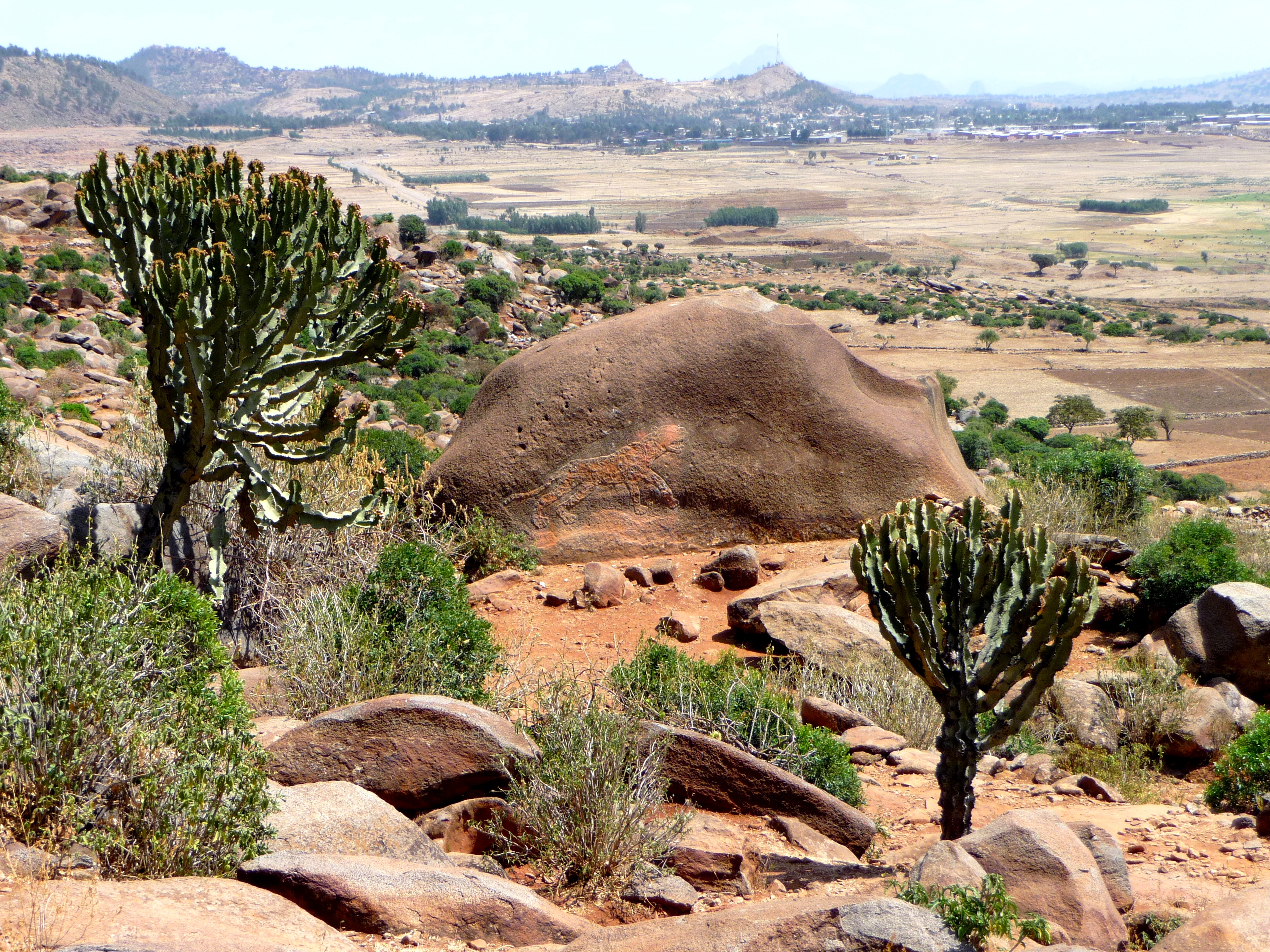 The Lioness of Gobedra near Aksum (Tigray Region, Ethiopia).